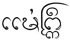 Lanna script – Mae Phrik is a district (amphoe) in the southern part of Lampang Province, northern Thailand.